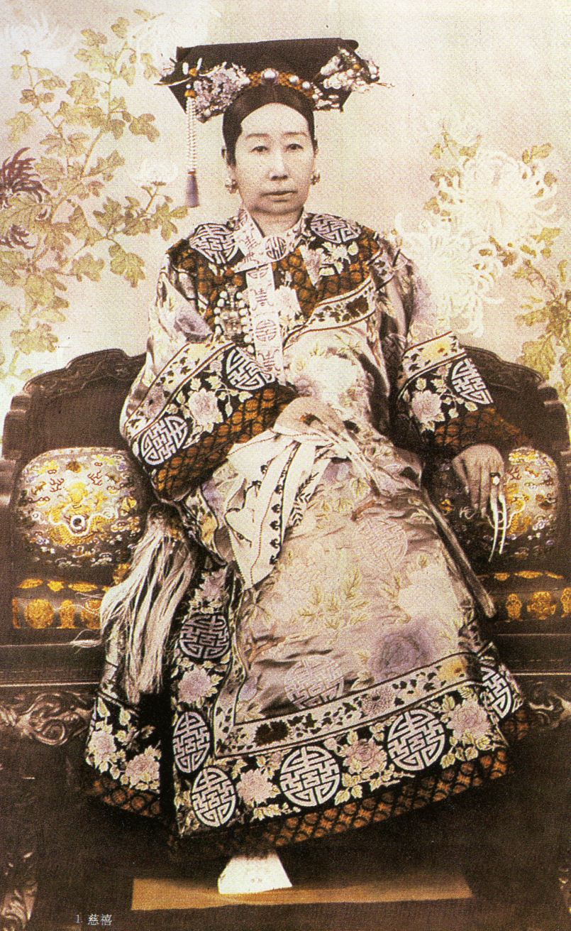 An official photographic portrait of Empress Dowager Cixi (29 November 1835 – 15 November 1908), aged around 55 years. The photograph was coloured by Imperial Court painters according to reality.